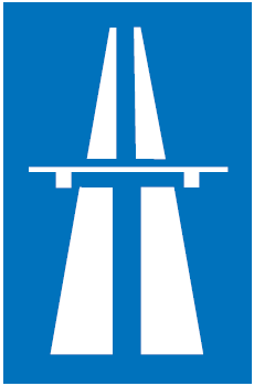 Diagram of road signs of Luxembourg